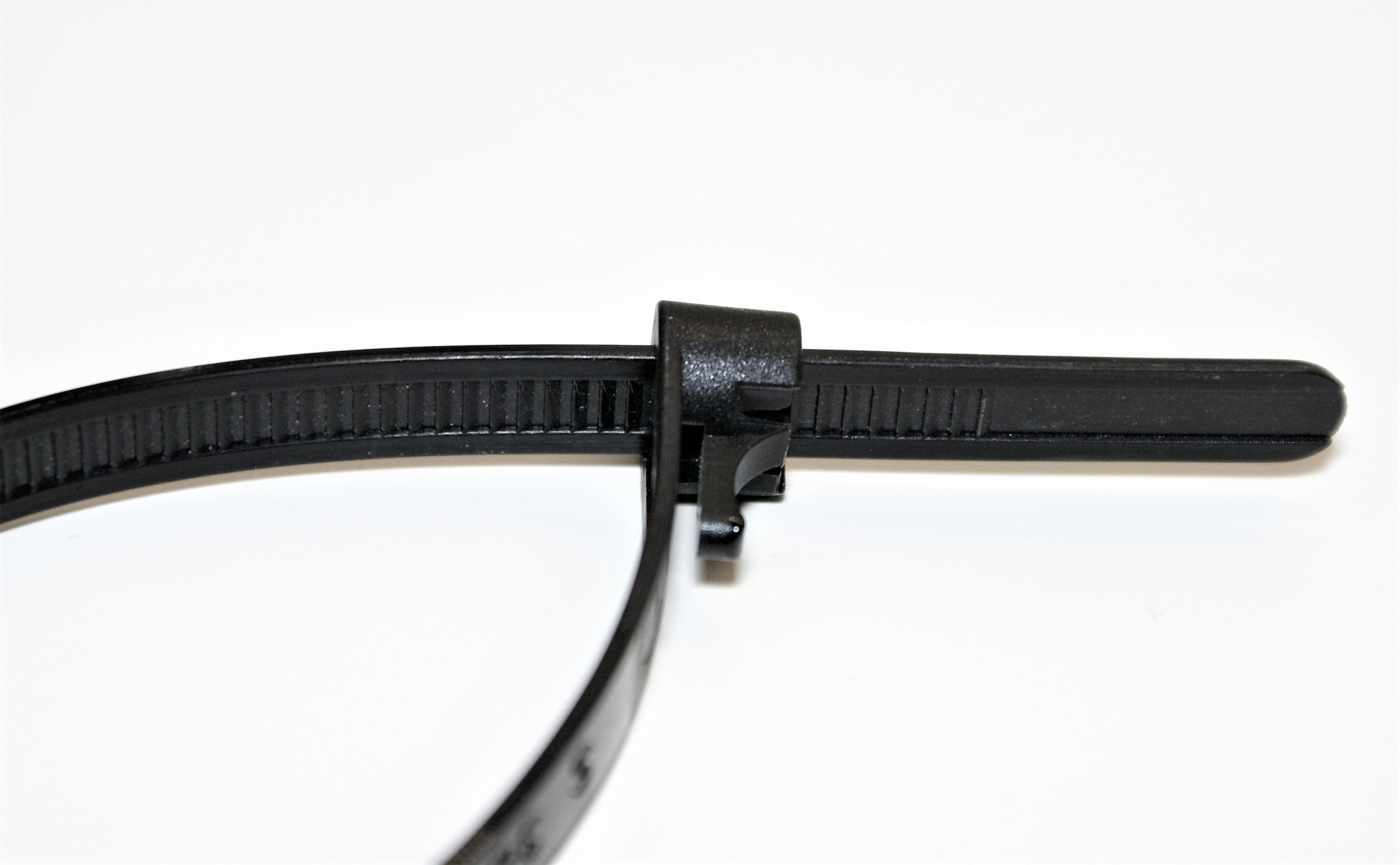 Reusable cable tie